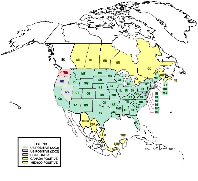 pub domain upload from National Wildlife Health Center [1]